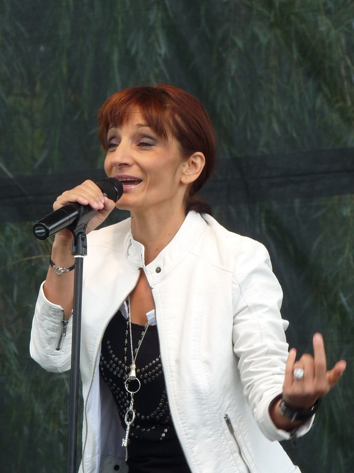 Ildikó Keresztes (1964– ) Hungarian singer and actress on concert in Békásmegyer on the twenty-eighth of August 2010.